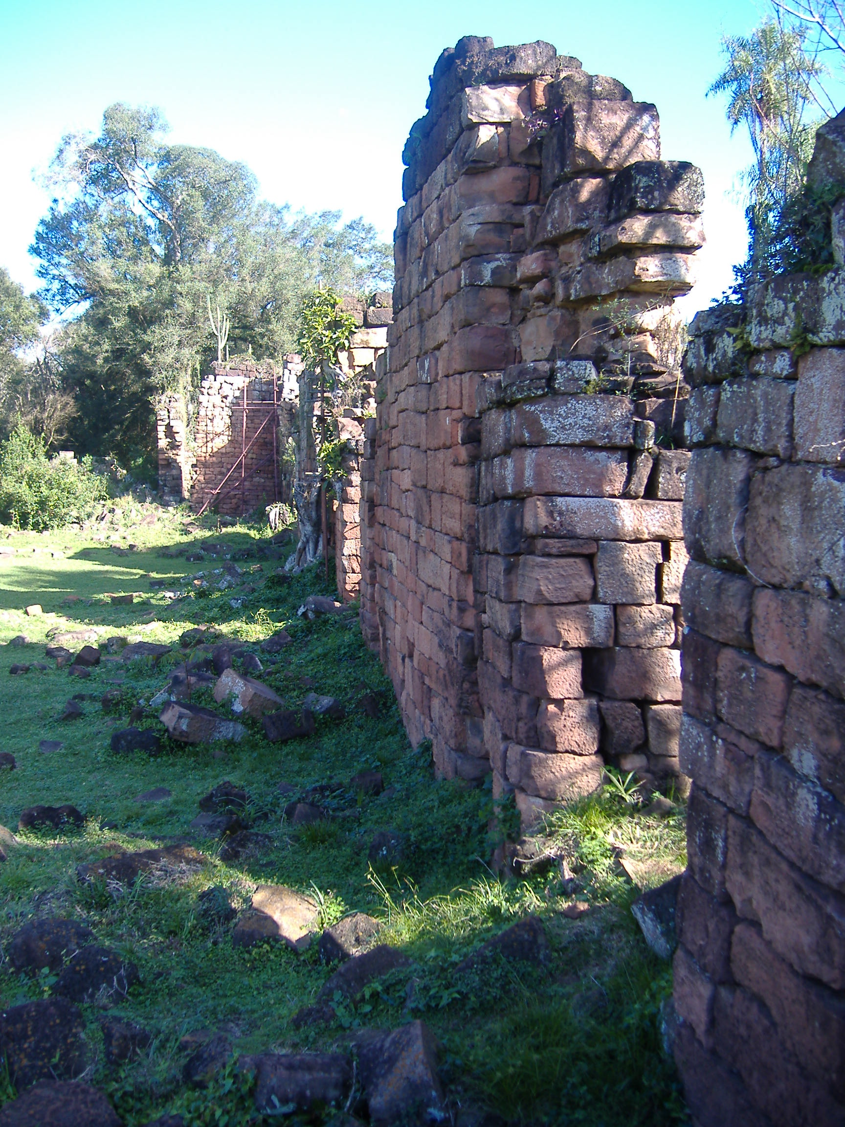 Ruins of the church of the Jesuit-Guarani mission of Nuestra Señora de Santa Ana, in Misiones, northeastern Argentina.